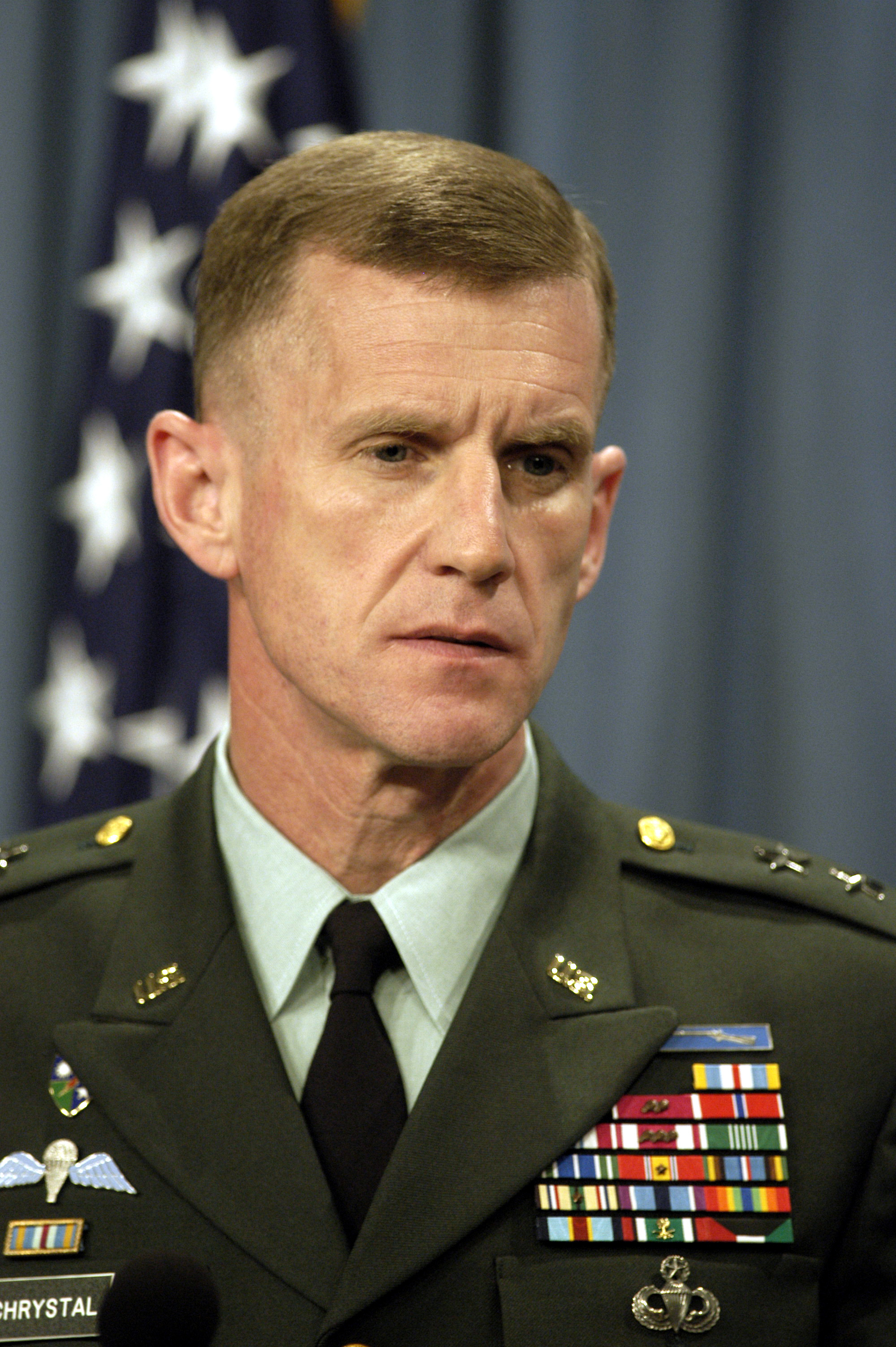 Major General Stanley A. McChrystal listens to a reporter's question during a Pentagon press conference on April 16, 2003. McChrystal and Assistant Secretary of Defense for Public Affairs Victoria Clarke briefed reporters about the situation in Iraq. McChrystal is the vice director for Operations, J-3, the Joint Staff.